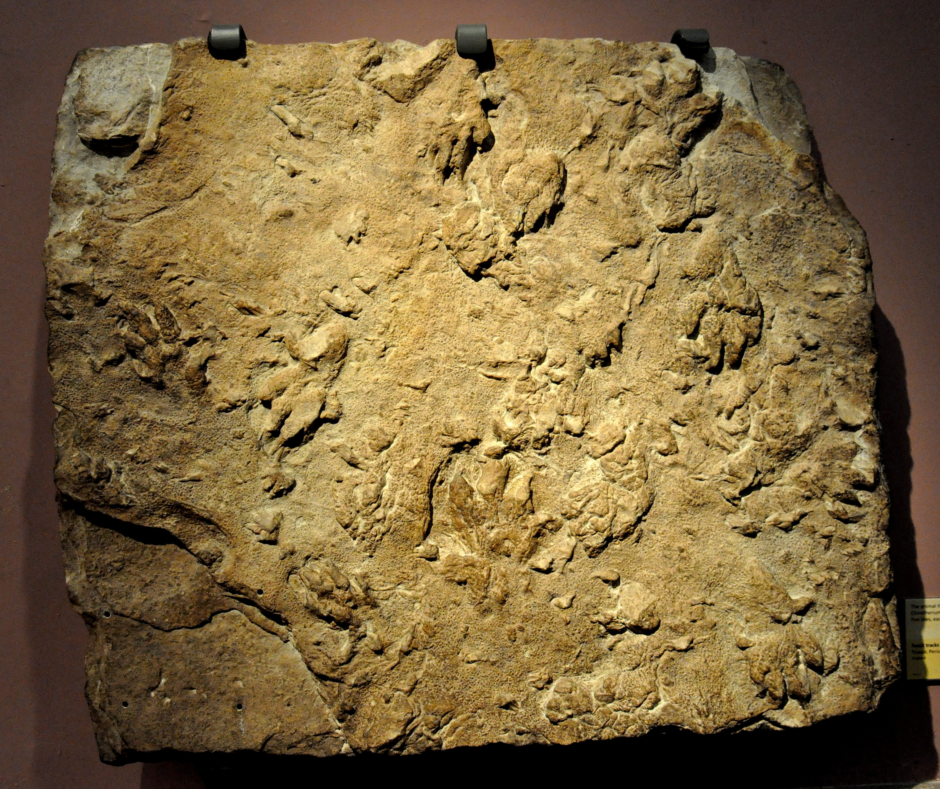 These footprints made by an unknown reptile species that lived in the Triassic period are called Chirotherium. The footprints show that its maker had 5 toes, each with a pointed claw on the end. The sandstone slab in which the tracks were preserved is from Storeton in Cheshire, England, UK, and is displayed at Kelvingrove Art Gallery and Museum, Glasgow, UK (accession no. 1902.73.rr).